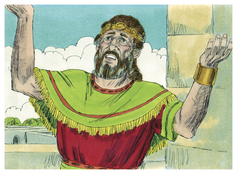 Biblical illustration of Psalms Chapter 51